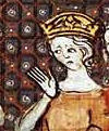 Adelaide of Frioul